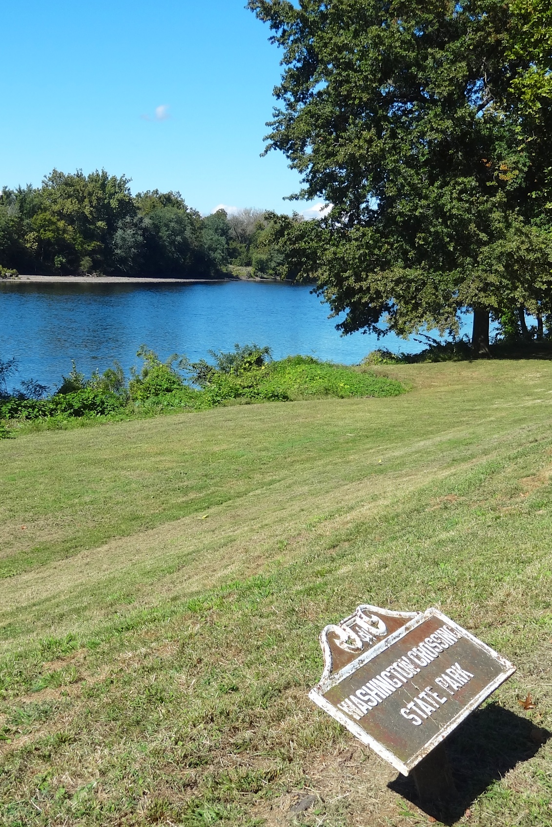 Washington Crossing State Park View of the landing area on the shore of the Delaware River.